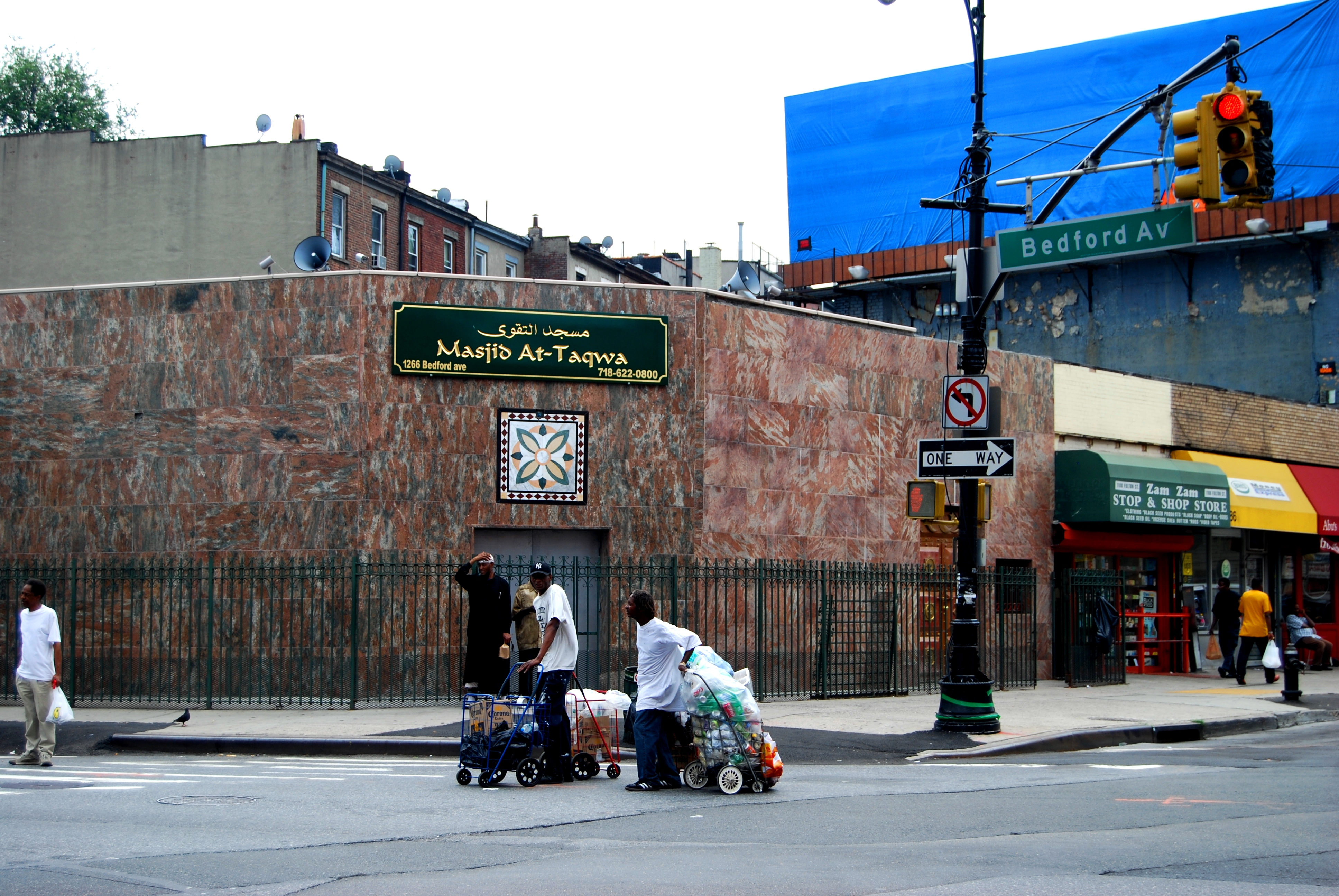 Masjid At-Taqwa, 1266 Bedford Avenue, Brooklyn, New York